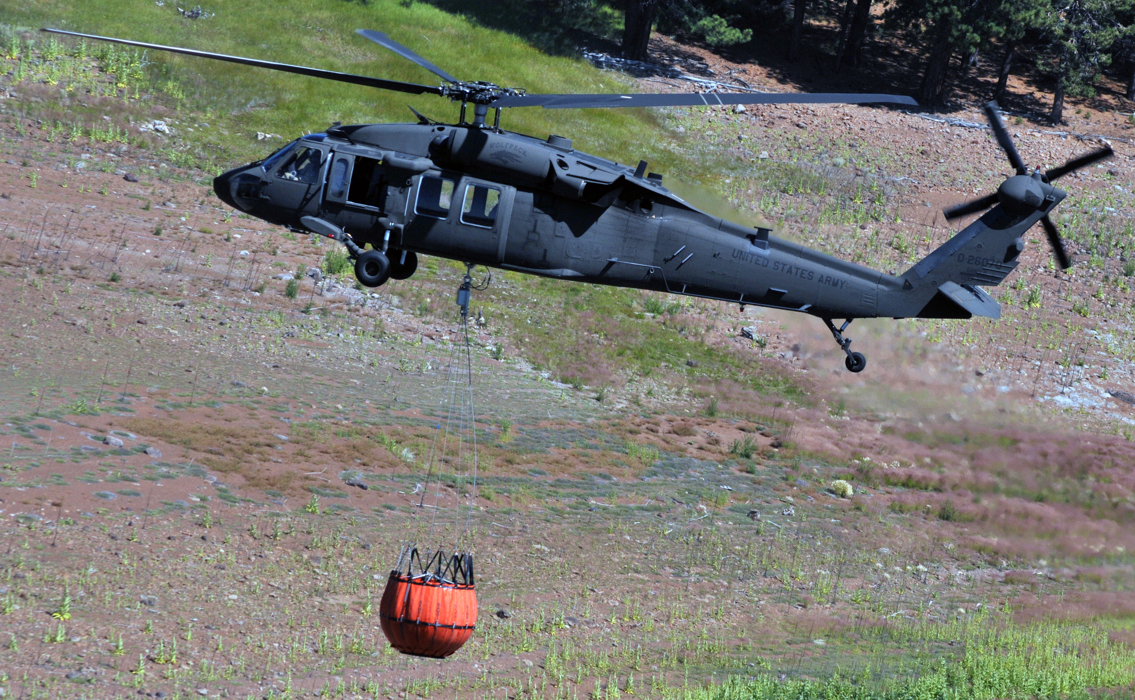 Blackhawk